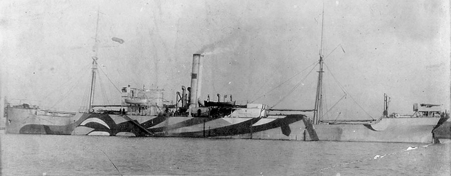 USS Santee at Queenstown, Ireland. Painted in "dazzle" camouflage, circa late 1917 or early 1918. Formerly SS Arvonian (British Freighter, 1905), this ship became HMS Bendish in mid-1917. She was loaned to the US Navy and placed in commission in late November 1917. Soon renamed Santee and employed as a "decoy ship" (or "Q-ship") for anti-submarine patrols, she was torpedoed on 27 December 1917. After repairs she was returned to the Royal Navy and again named Bendish. The freighter resumed her commercial career after World War I and during the next four decades bore the names Arvonian, Brookvale, Spidola and Rudau. She was broken up in 1958.